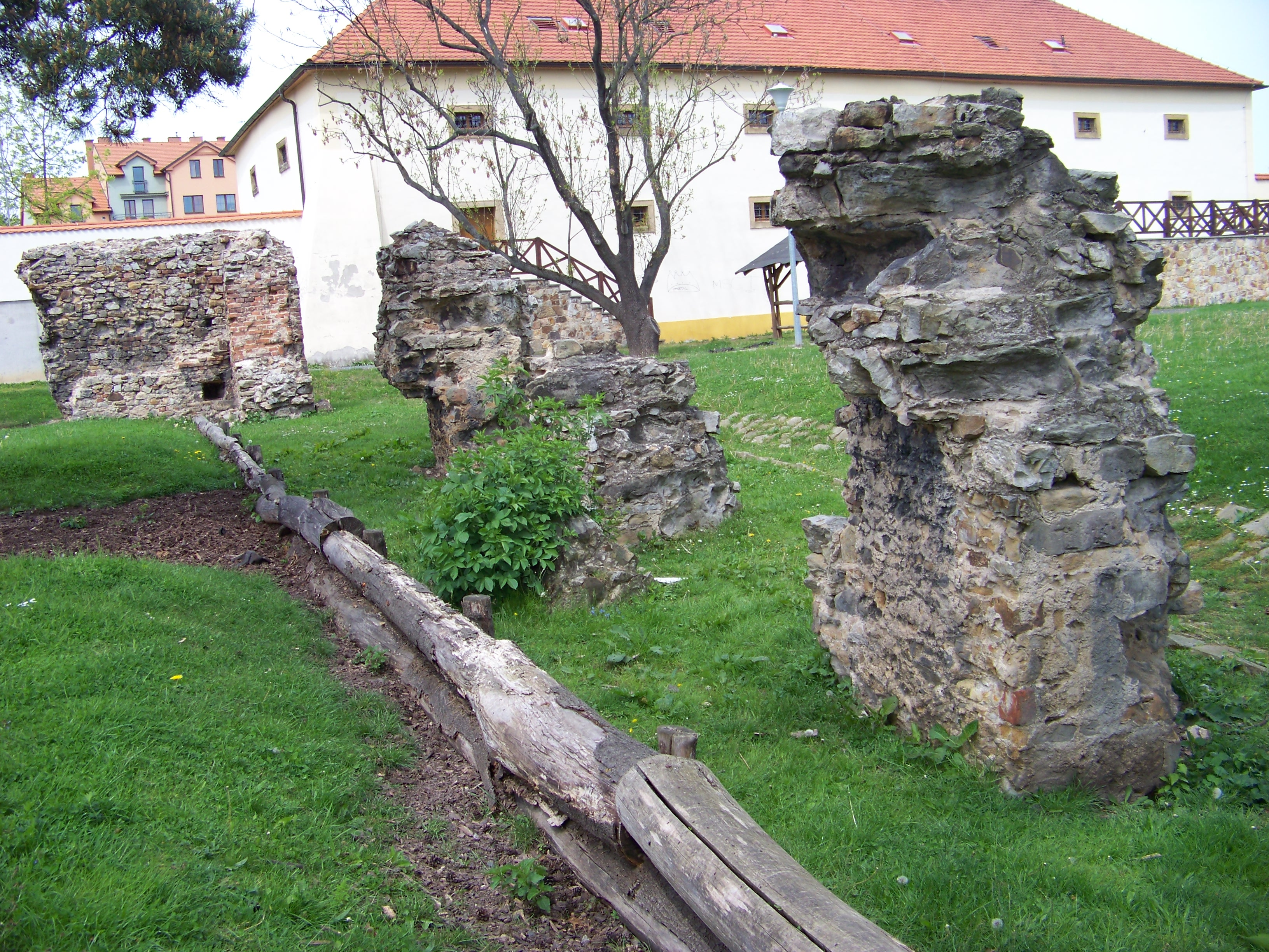 Prague-Dubeč, Czech Republic. Remains of the new stronghold and a granary.